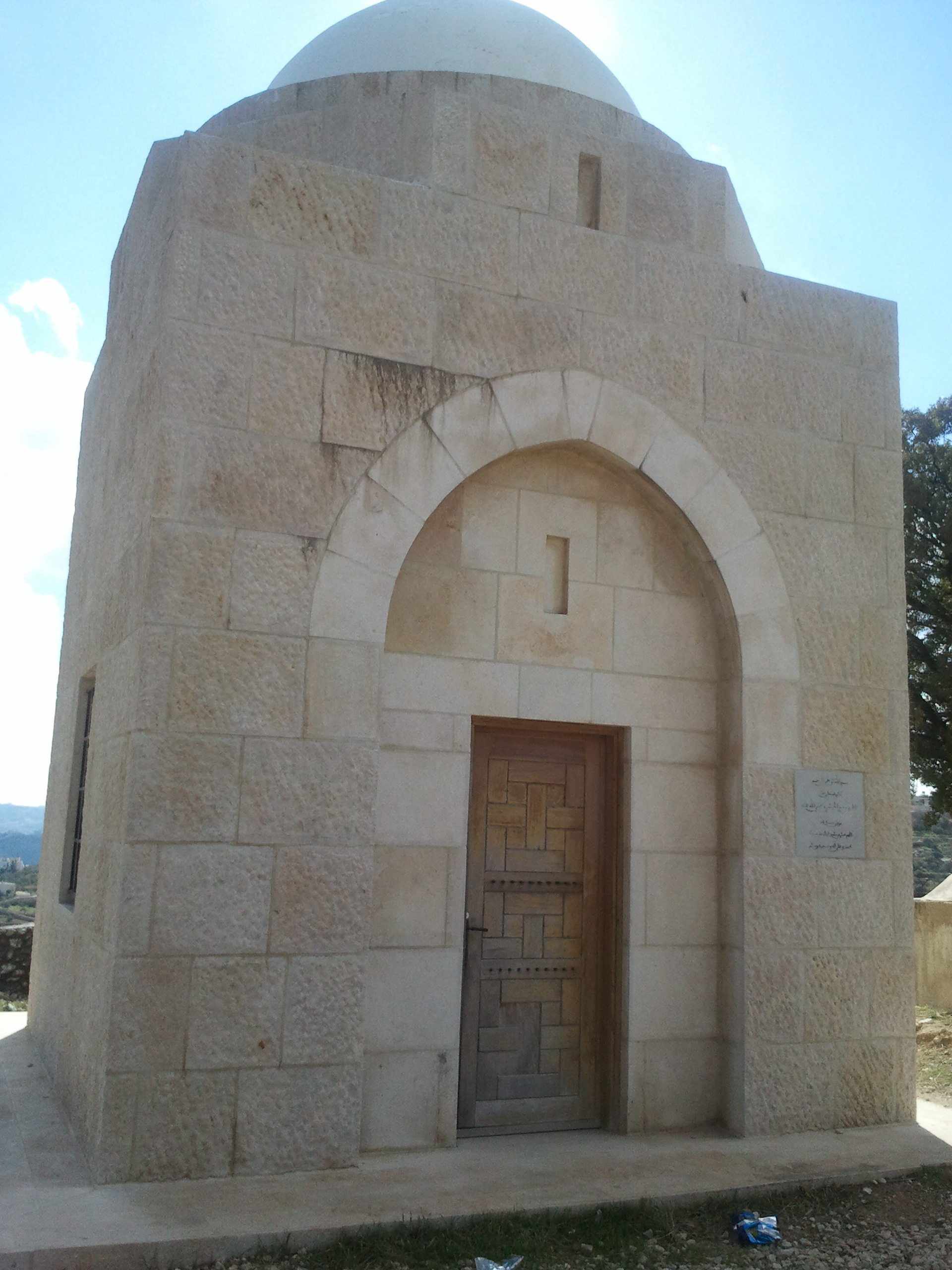 shrine of Sahabe Bilal bin Rabah in Jordan [from outside]